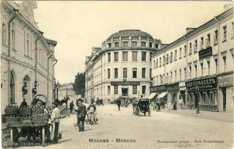 Povarskaya Street